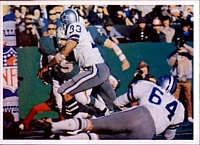 A football card from the 1986 Jeno's Pizza NFL football card stickers set of Dallas Cowboys running back Duane Thomas rushing the ball for a touchdown against the Miami Dolphins in Super Bowl VI. The card is numbered #1 in the set. The back of the card reads: THE COWBOYS' FIRST SUPER BOWL WIN Dallas running back duane Thoams bolts into the end zone from the 3-yard line, as the Cowboys overpower Miami 24-3 to win Super Bowl VI. Thomas rushed for 95 yards to lead a Cowboys attack which gained 252 on the ground. Roger Staubach also threw touchdown passes to Lance Alworth and Mike Ditka.